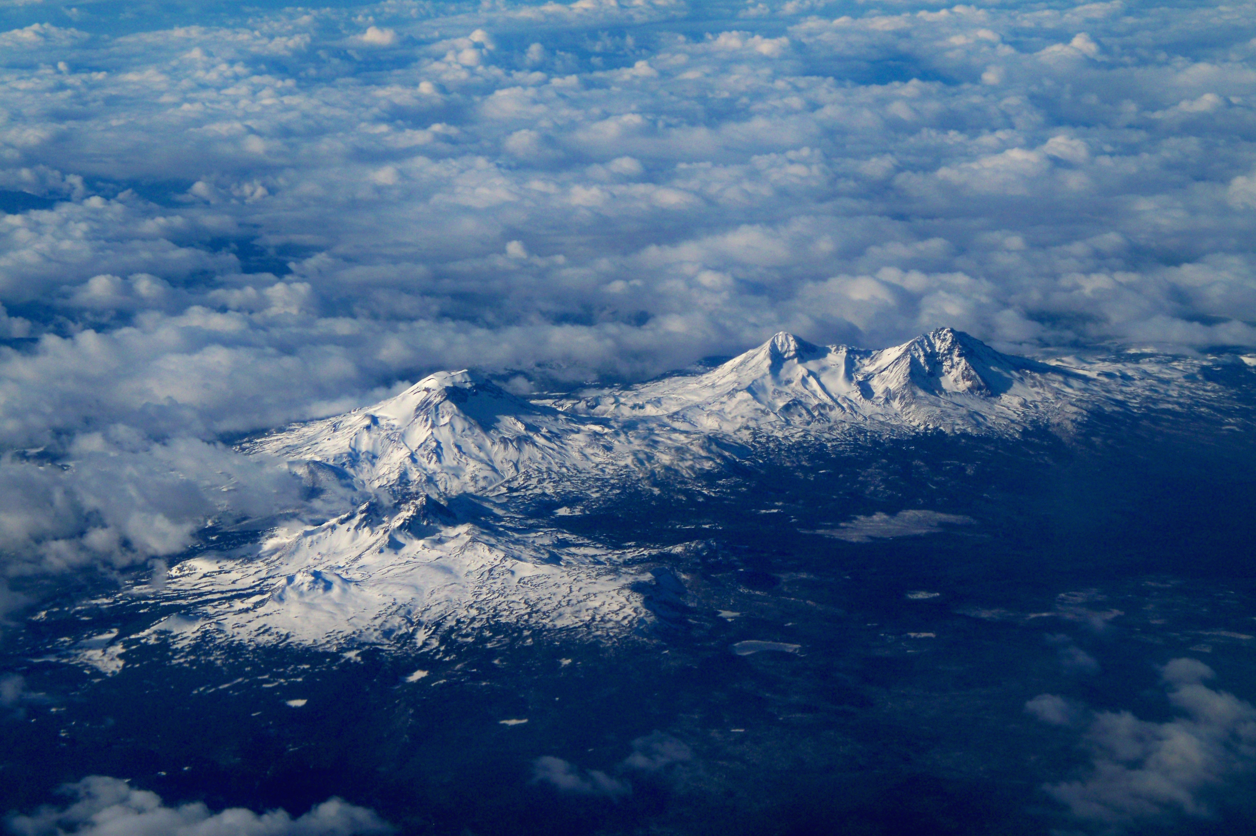 Triple mountian gets! the one good thing about the window seat. Photo ops!